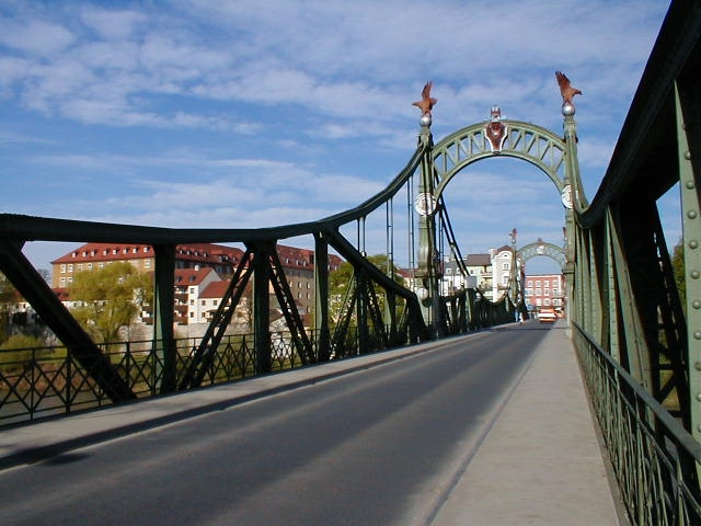 Bridge between Oberndorf bei Salzurg (Austria) and Laufen (Germany)